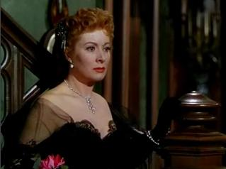 Cropped screenshot of Greer Garson from the trailer for the film That Forsyte Woman